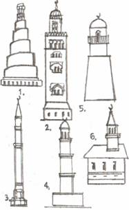 types of minarets